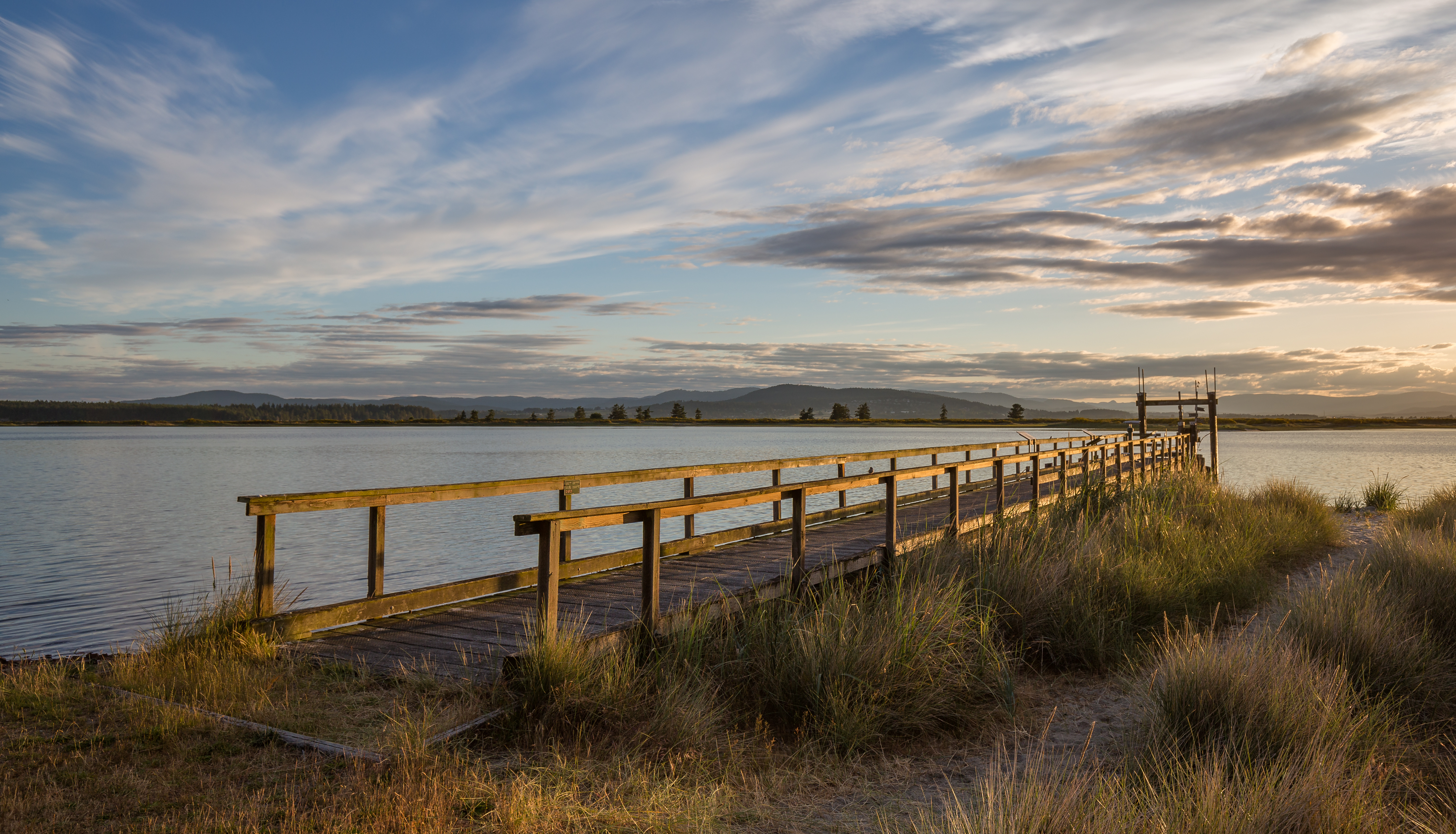 A pier and a path to the beach during the sunset. Campsite at Sidney Spit (part of Gulf Islands National Park Reserve), Sidney Island, British Columbia, Canada